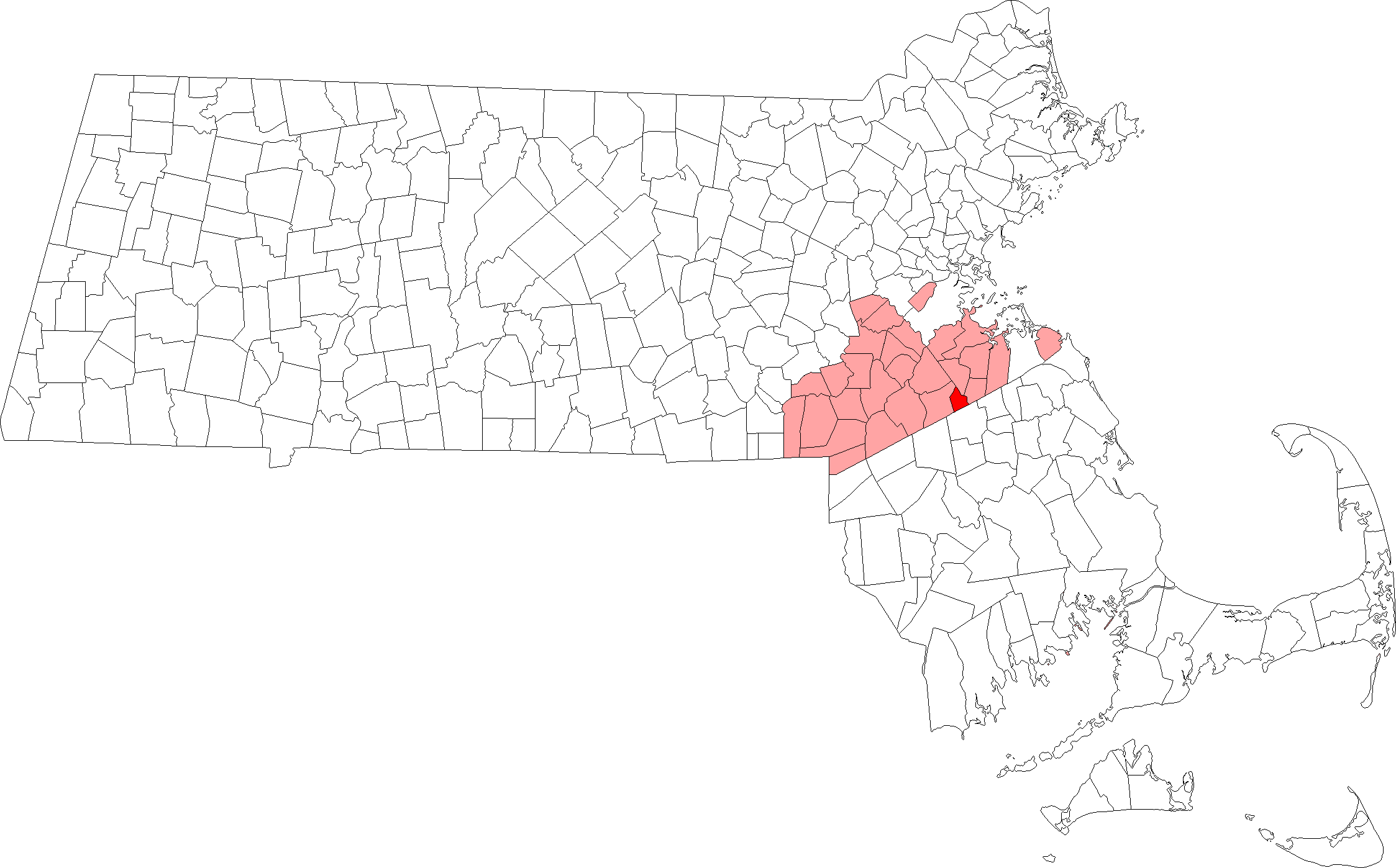 Location of Avon in Norfolk County, Massachusetts